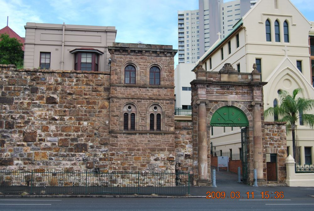 The Wall, Lodge and Gate, All Hallows Convent and School, from NW (2009)